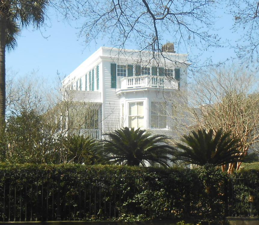 31 Meeting Street, Charleston, South Carolina